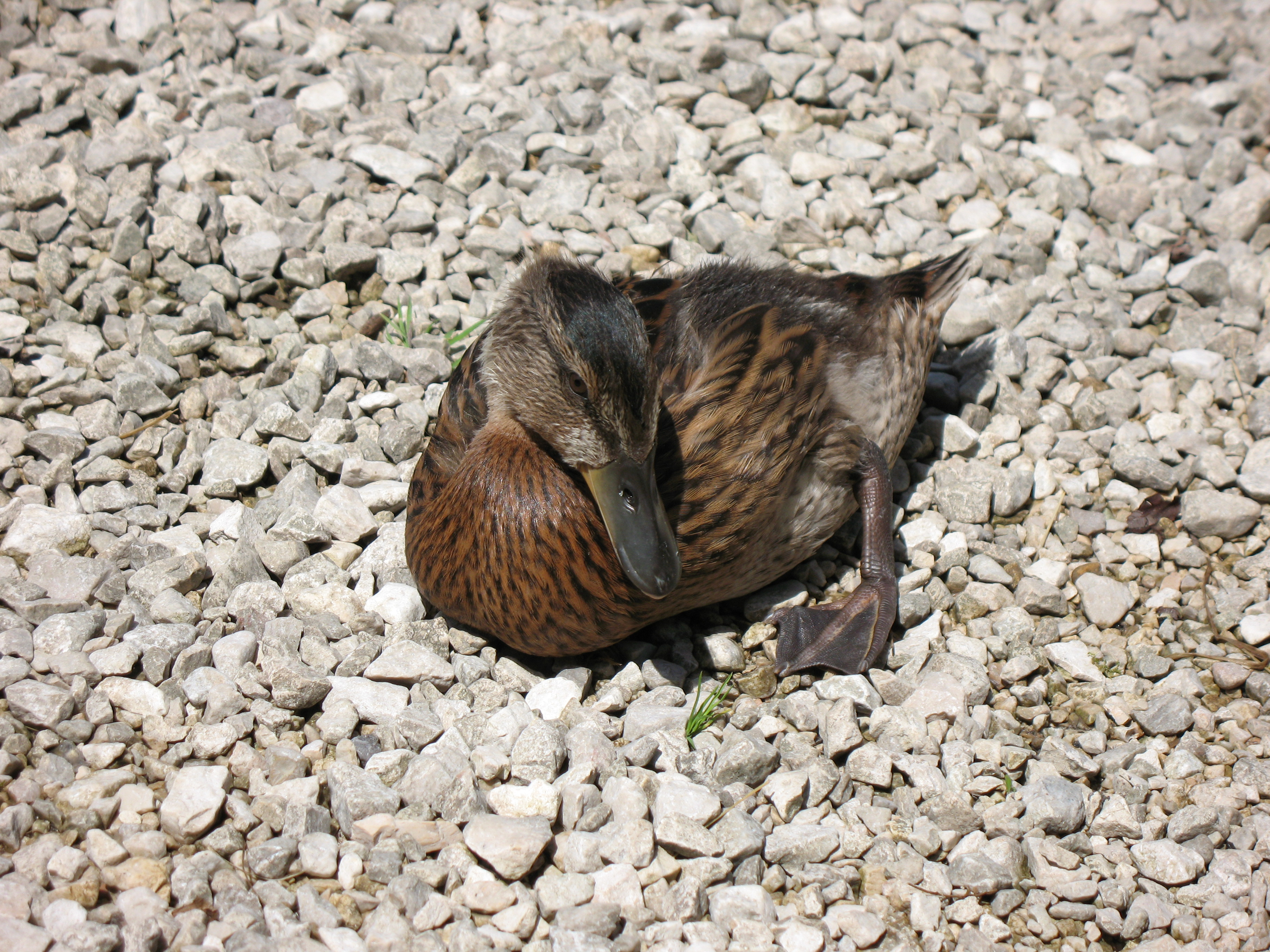 Duck, Hallstatt Lake, Austria